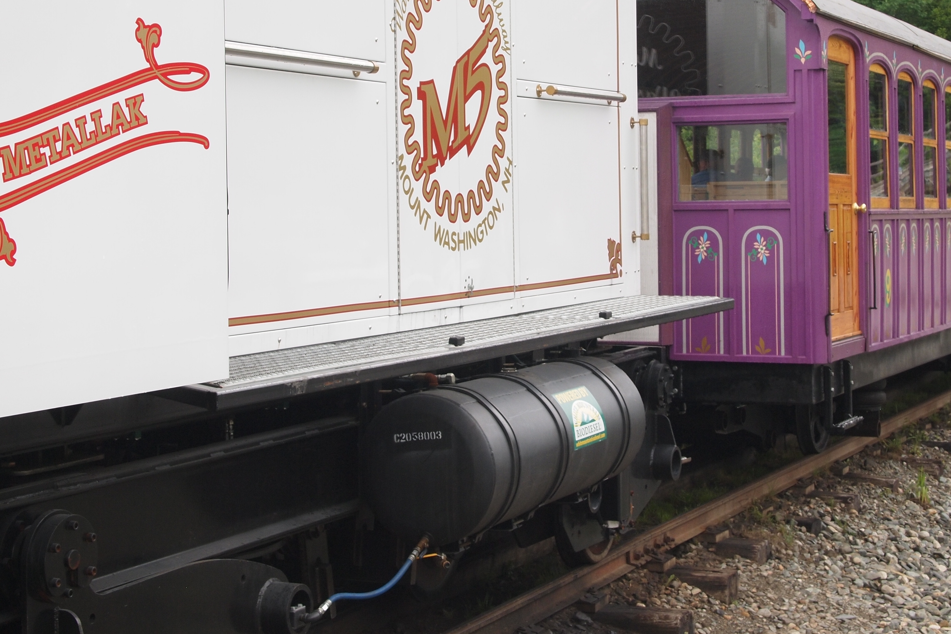 The M5 "Metallak" of Mount Washington Cog Railway is powered by B20 biodiesel (20% blend of biodiesel) processed from waste grease of local restaurants.